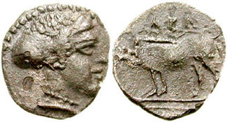 Sicily, Abakainon. Circa 465-392 BC. AR Hemilitron (0.22 gm). Head of a nymph right, hair in ampyx and sphendone Boar standing left.